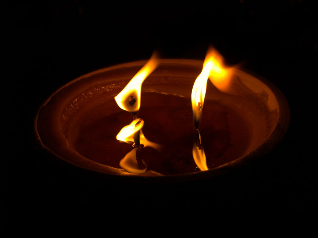 Candle Night